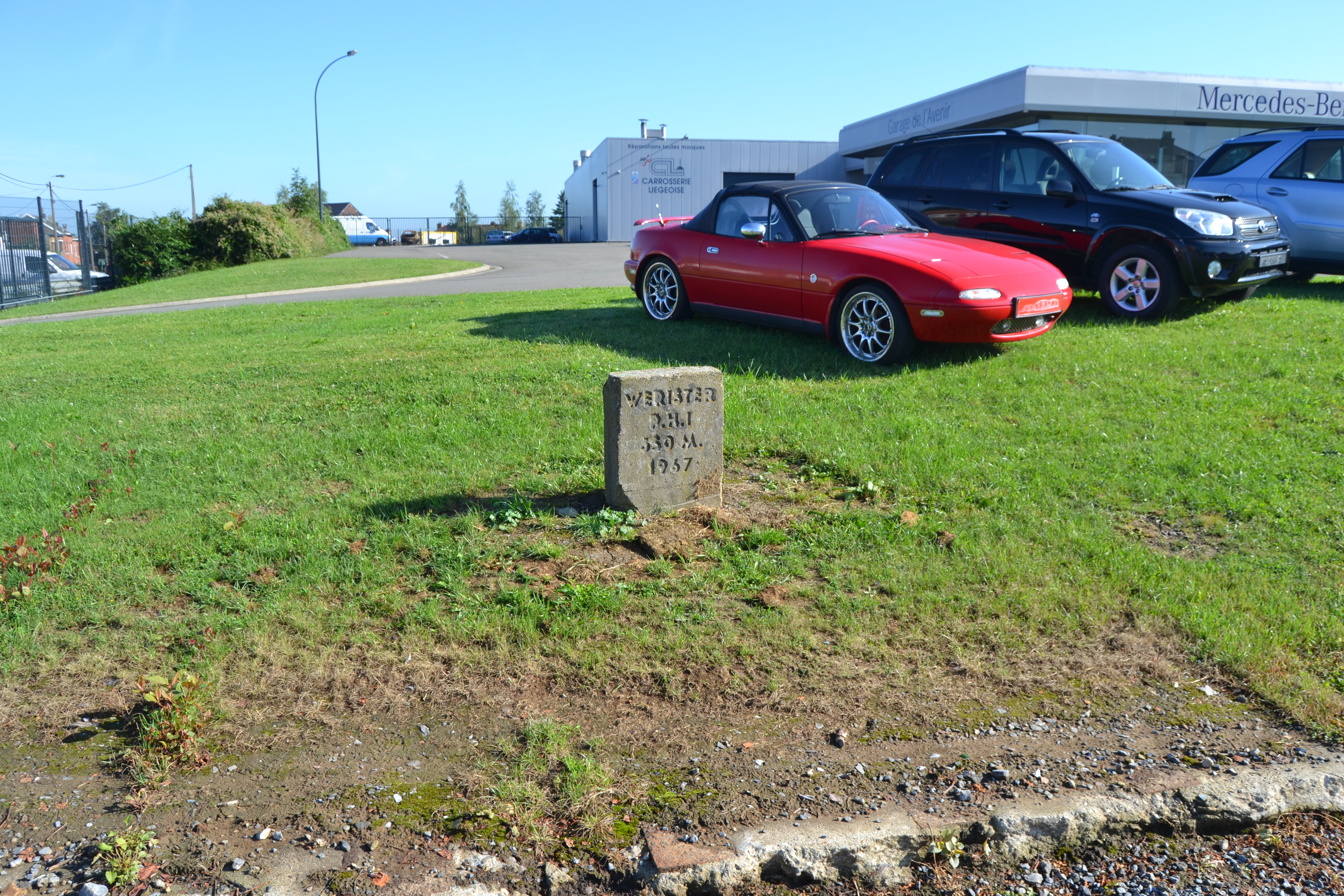 Ancient pit of the Homvent coal mine in Beyne-Heusay, Belgium